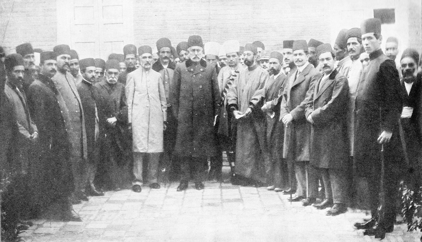 Najaf Qoli Khan Samsam al-Saltaneh, center